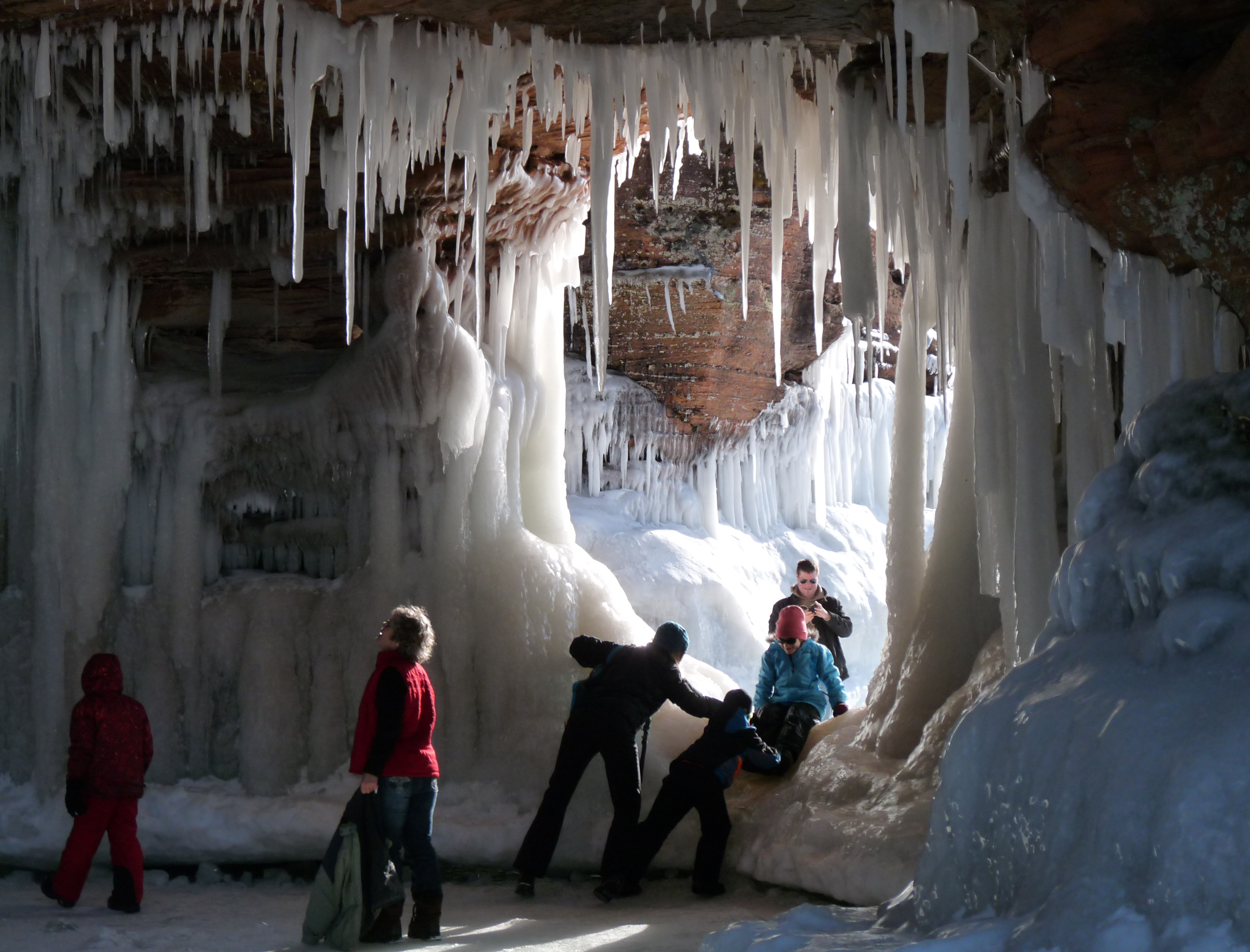 Lake Superior's wave action has eroded shallow caves into the sandstone east of Meyer's Beach. Some winters the lake is stable enough for visitors to walk out to the caves.